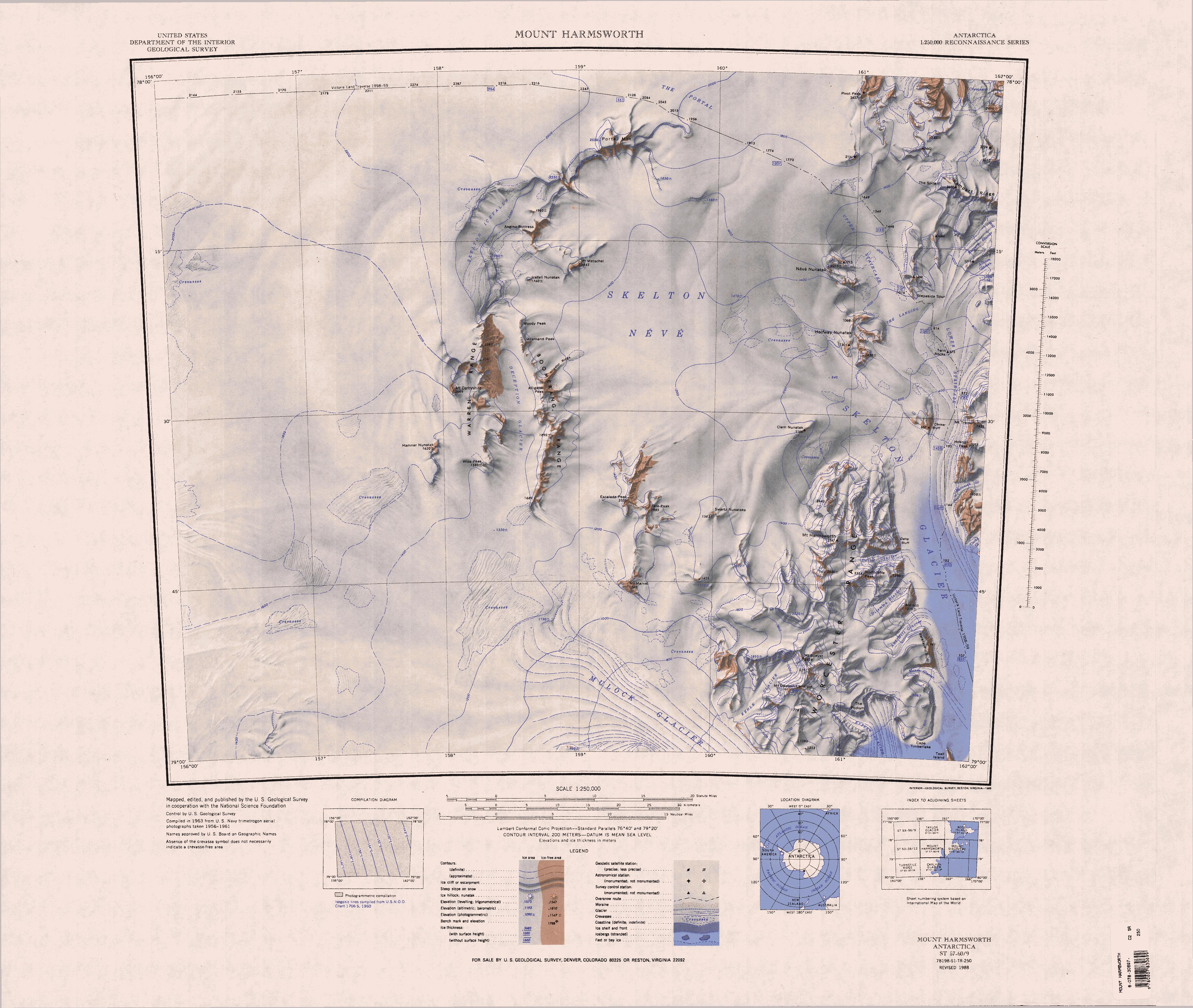 1:250,000-scale topographic reconnaissance map of the Mount Harmsworth area from 156°-162'E to 78°-79°S in Antarctica. Mapped, edited and published by the U.S. Geological Survey in cooperation with the National Science Foundation.